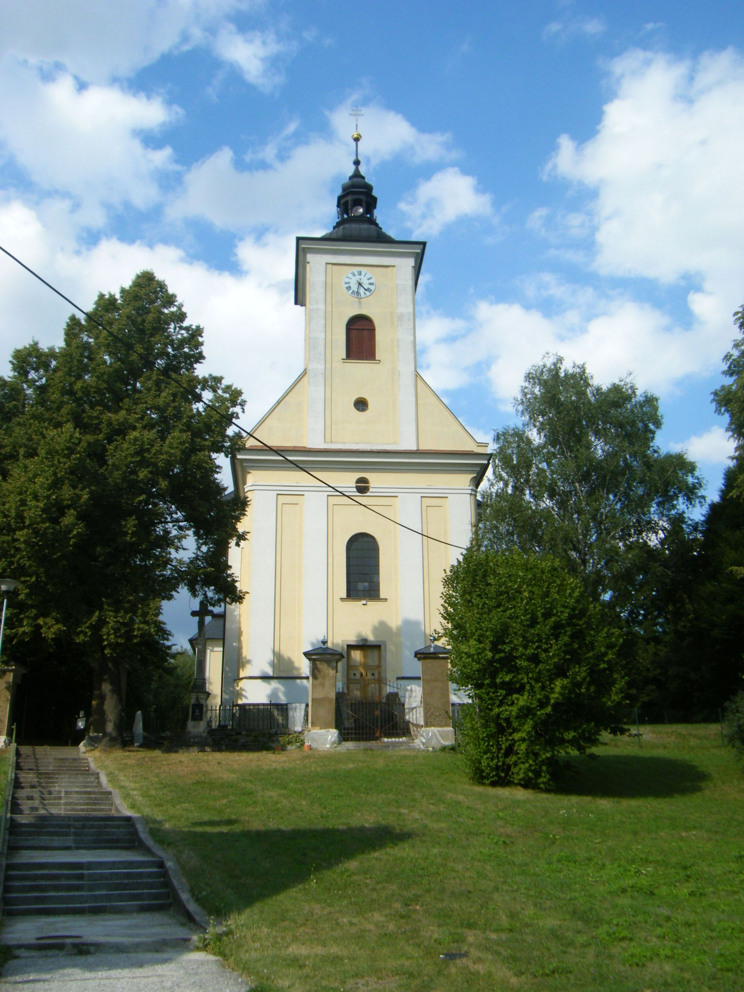 Studénka-Butovice, All Saints Church, front view